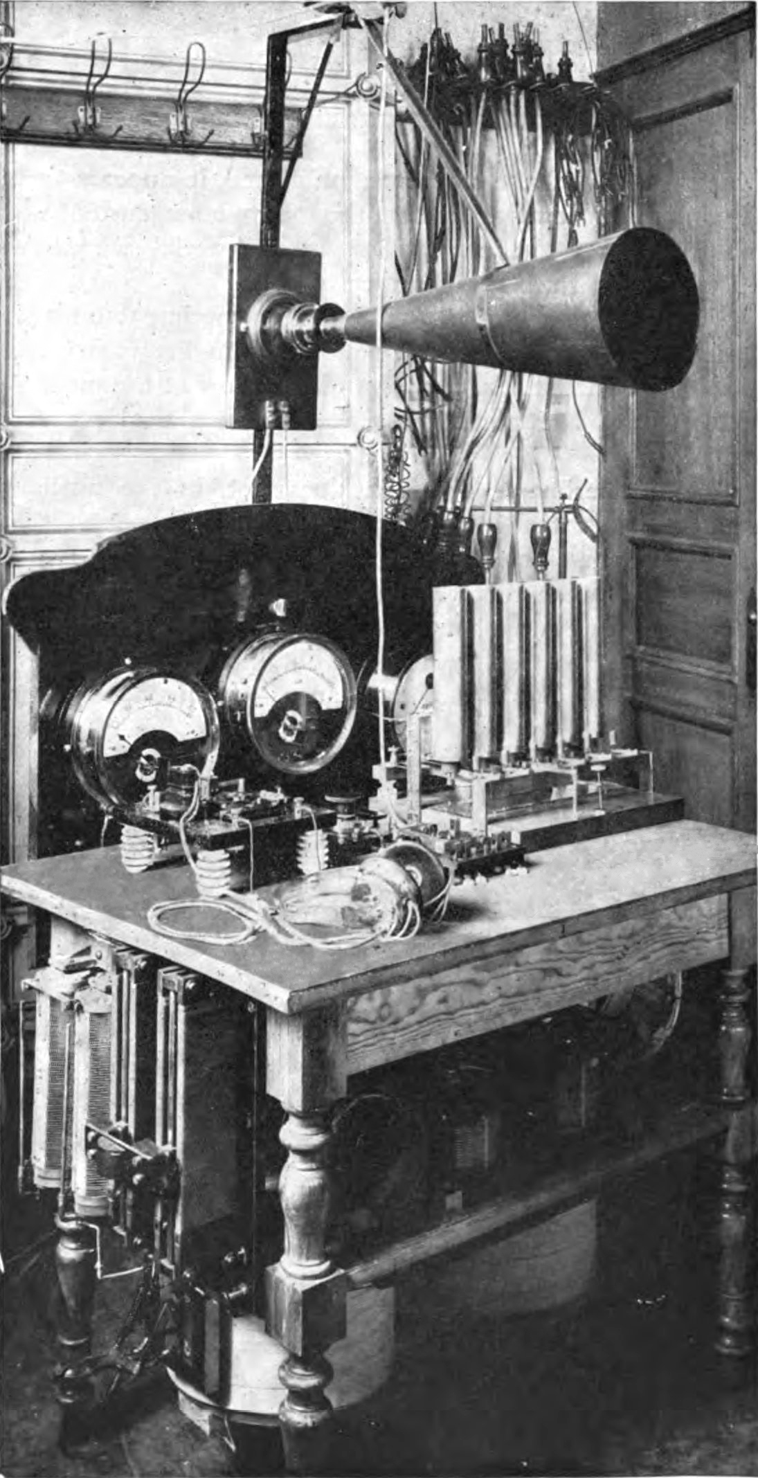 One of the first pre-vacuum tube AM radio transmitters, developed December 1906 by the German firm Telefunken (Gesellschaft für drahtlose Telegrafie). In experiments on December 14, 1906 it transmitted voice signals 36 km (24 mi) from Berlin to Nauen, Germany. Based on the Poulsen arc transmitter invented by William Duddell and Valdemar Poulsen in 1903, it used 6 short electric arcs between carbon an copper electrodes (inside vertical tubes) with 220 VDC applied, connected to a tuned circuit consisting of a coil and capacitor in series (located under the table) to make a continuous wave electronic oscillator. The negative resistance of the arcs excited radio frequency oscillations in the tuned circuit. The radio signal was modulated by the carbon microphone (cone, above) in the transmitter's antenna wire. The pressure of the sound waves varied the resistance of the carbon granules, which varied the current applied to the antenna. The small breadboard mounted on standoffs on the desk is the receiving apparatus. Due to lack of a magnetic blowout the efficiency was low. Arc transmitters like this were one of the first technologies that could transmit sound, but were only used for a short period until the early 1920s, when they were replaced by the vacuum tube invented by Lee De Forest in 1906. More information in Alfred N. Goldsmith, "Radio Telephony, Article 4" in Wireless Age magazine, April 1917, p. 472-476